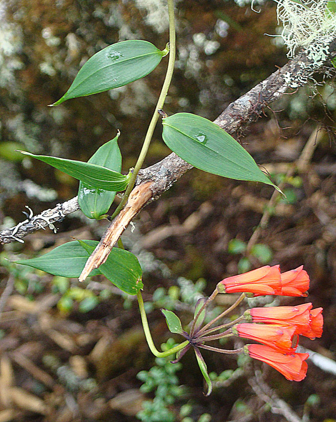 Found in the high mountains of Costa Rica and Panama. Photo from the paramo of Cerro del Muerte, Costa Rica. In context at